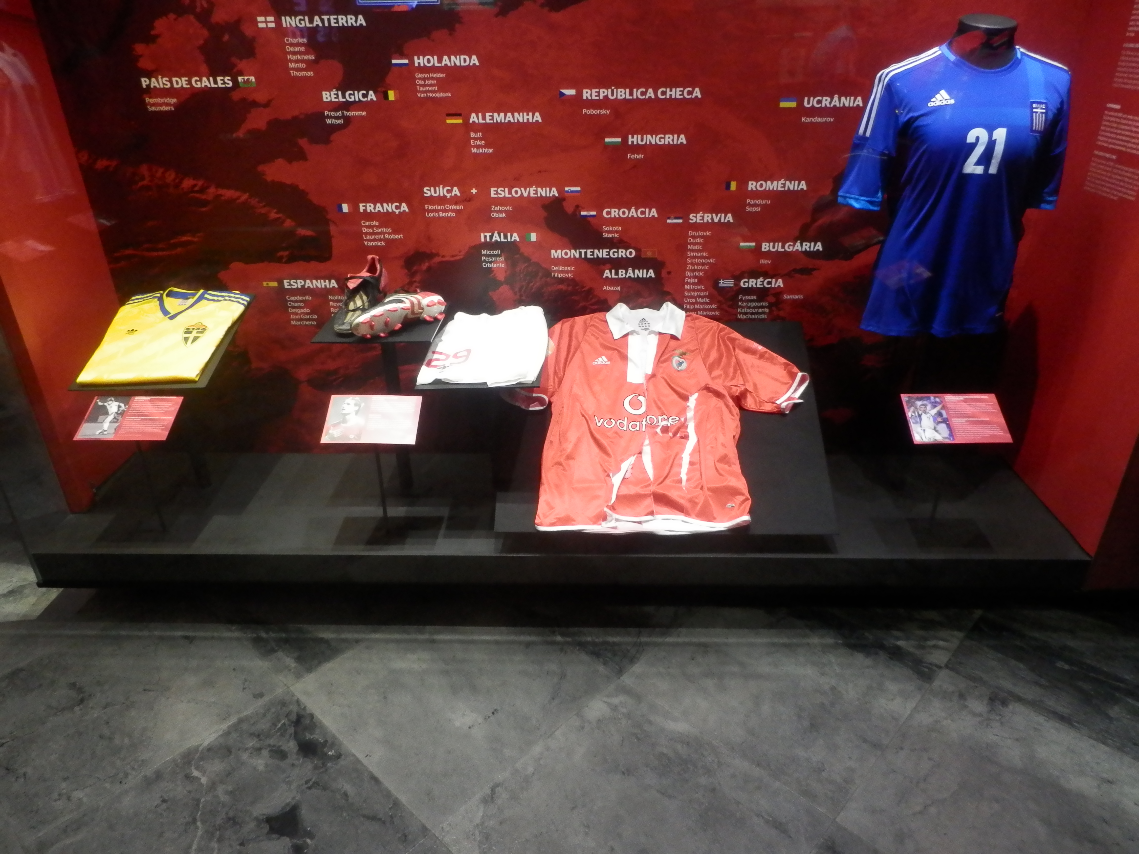 Féher shirt cutted by the paramedics